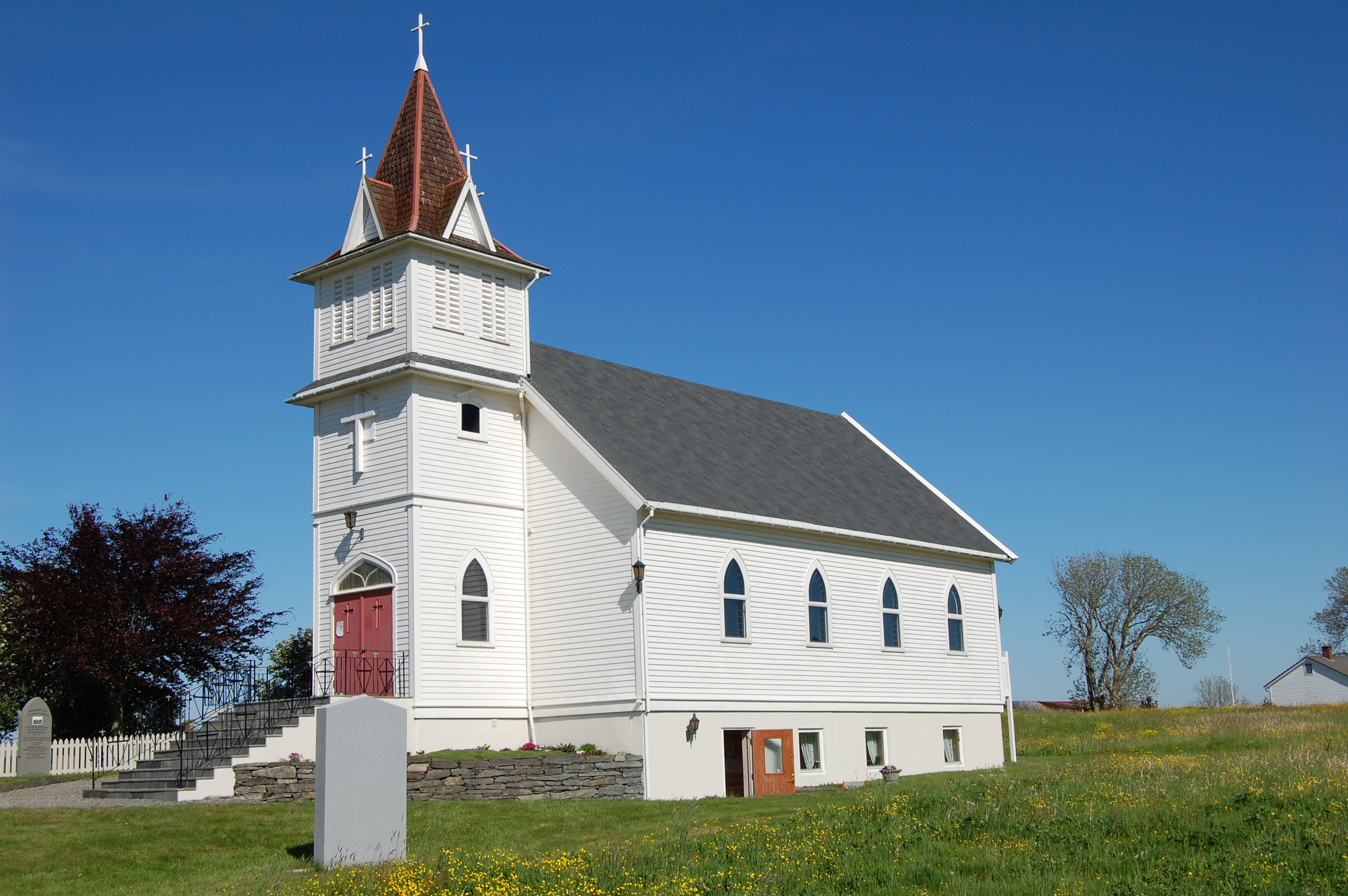 The Emigrant Church, Sletta, Norway. Former Brampton Lutheran Church. Built by Norwegian emigrants 1908-1922 in Brampton, North-Dakota, and moved to Norway in 1997.